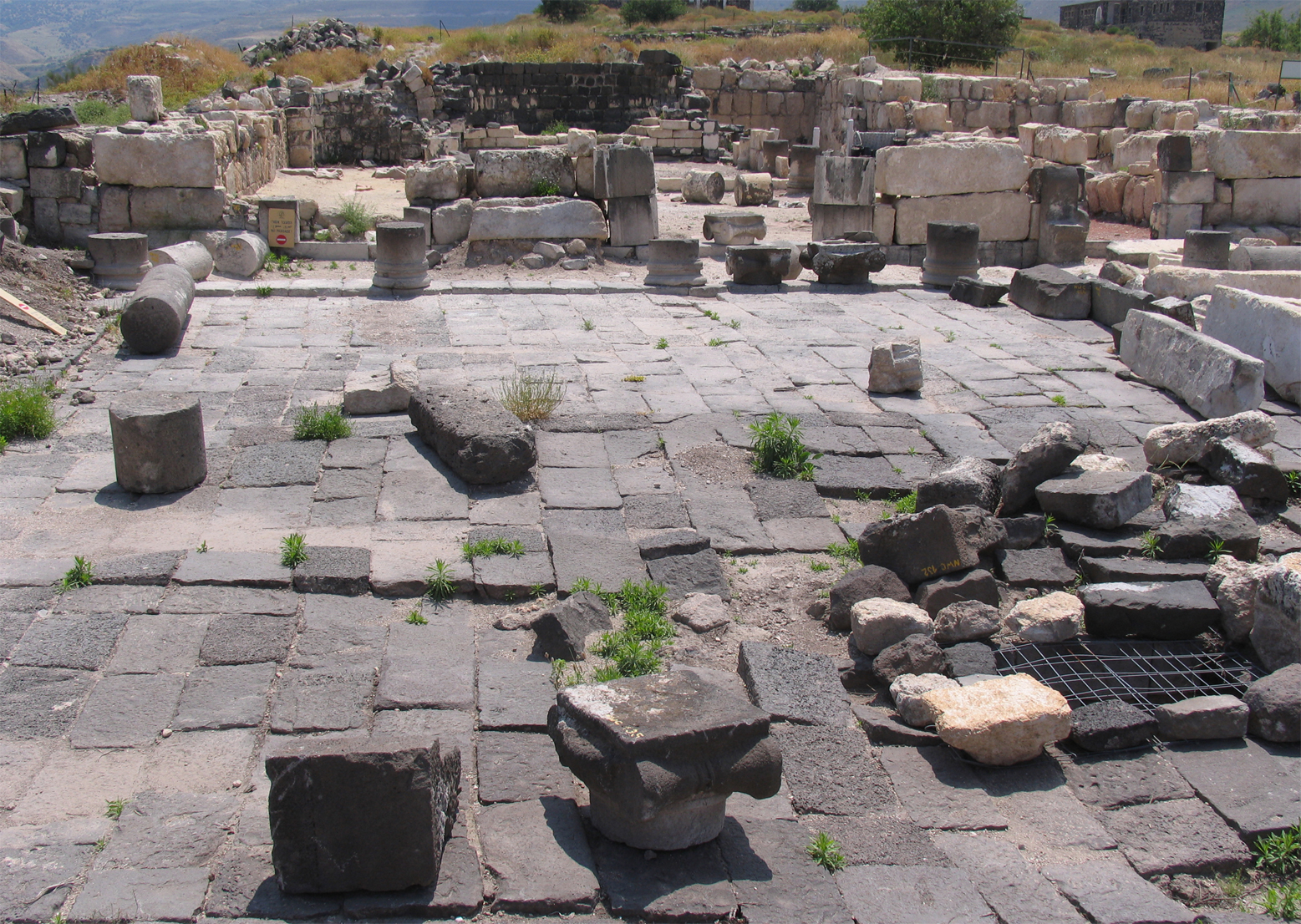 Hippos - atrium kościoła / Hippos atrium of the church